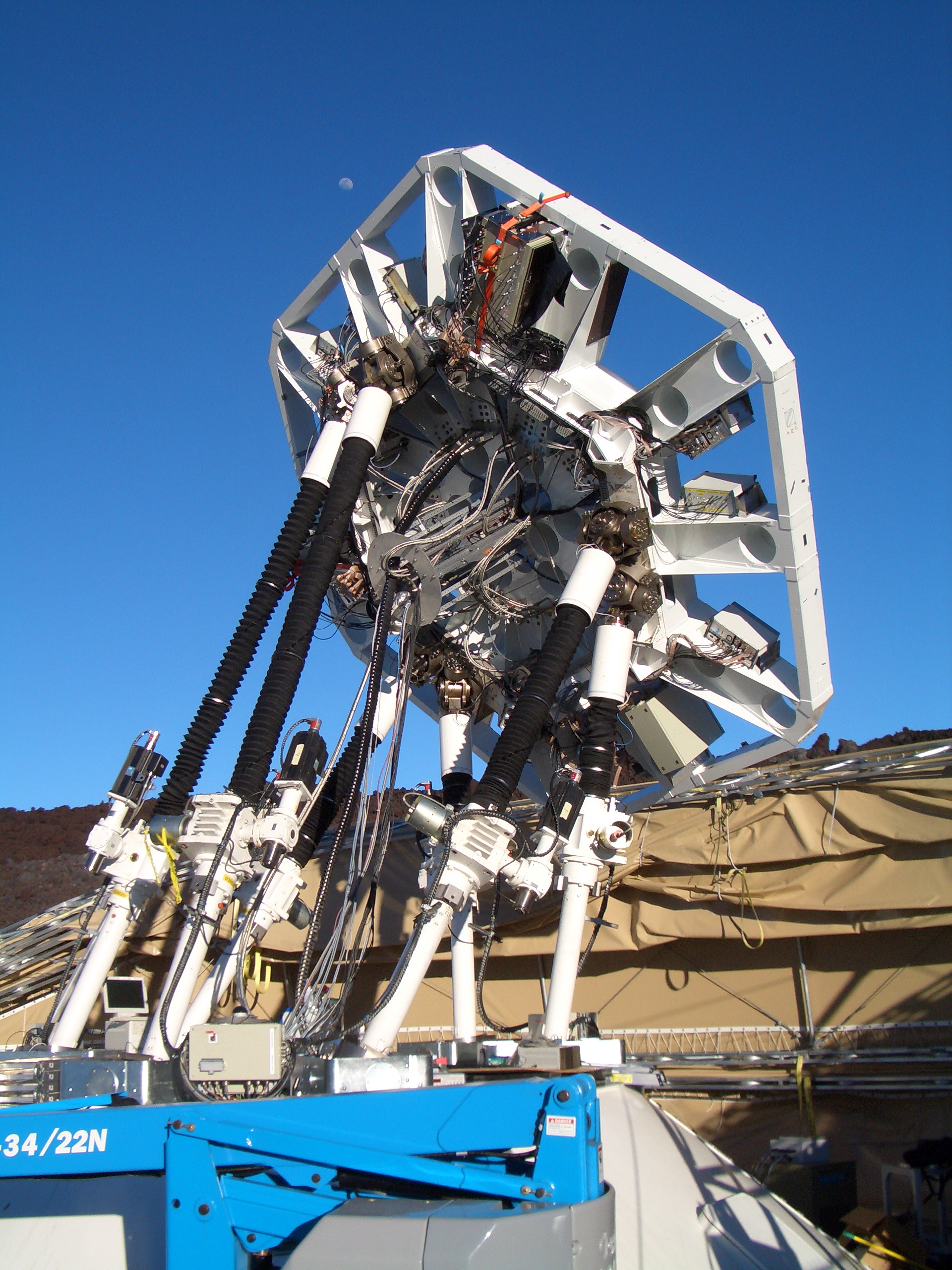 AMiBA, a Cosmic Microwave Background experiment located in Hawaii, during construction in June 2006. The Moon is in the background.